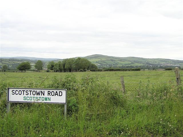 Scotstown Road. It is in the townland of Scotstown.